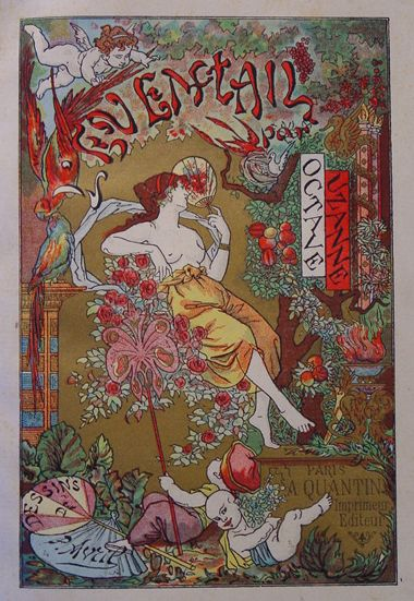 Octave Uzanne: L'Éventail (The hand-held fan), Paris, Quantin 1882, cover by Paul Avril